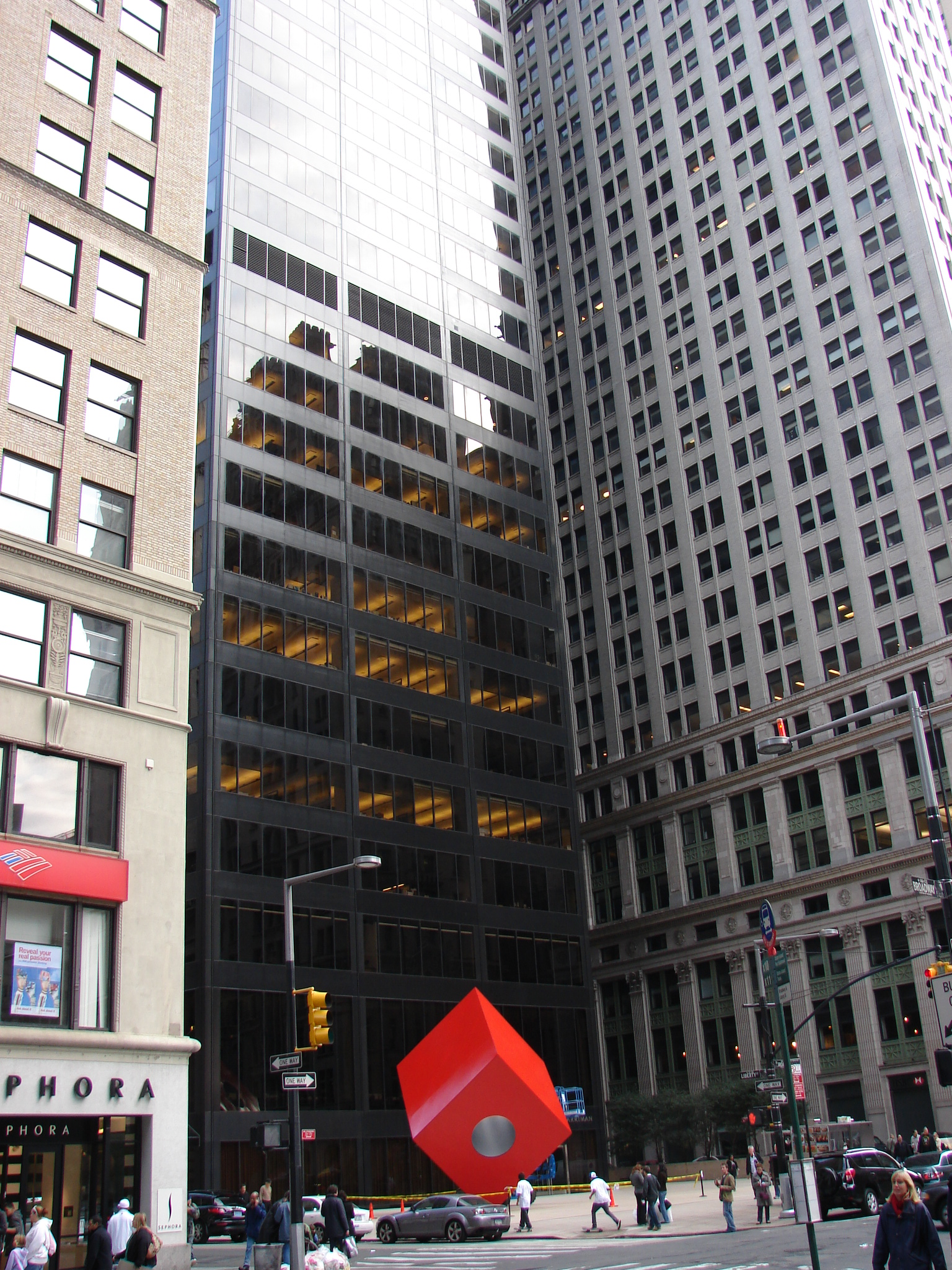 This photo is of Wikis Take Manhattan goal code H16, Marine Midland Building.